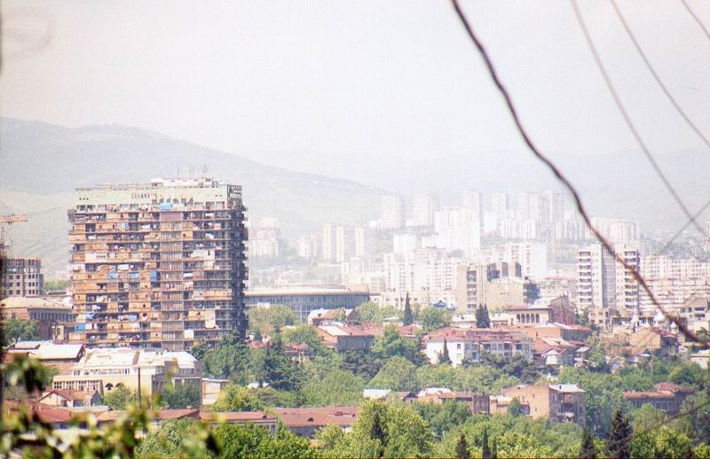 Downtown Tbilisi, Georgia, in the forefront Hotel Iveria, which has been knocked down